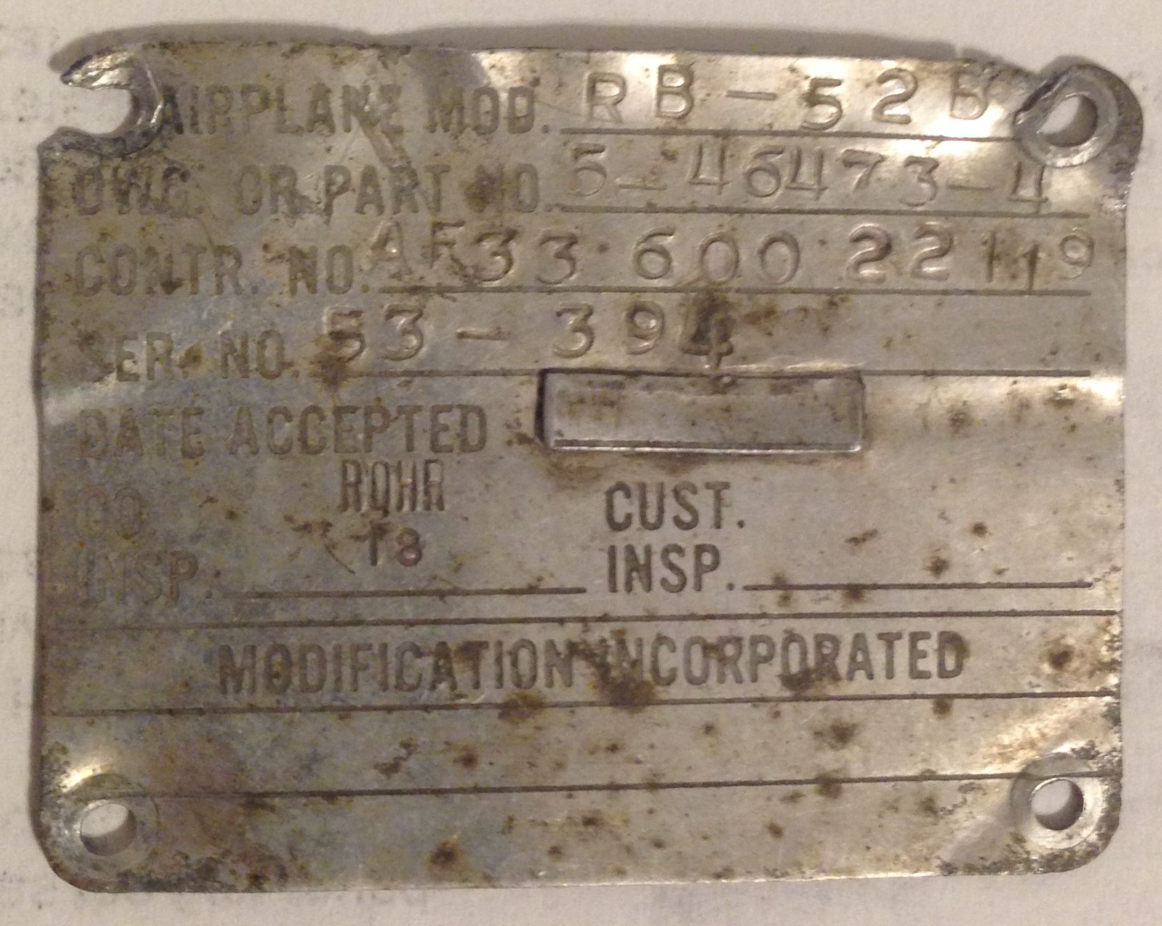 Data plate from lead plane on this mission